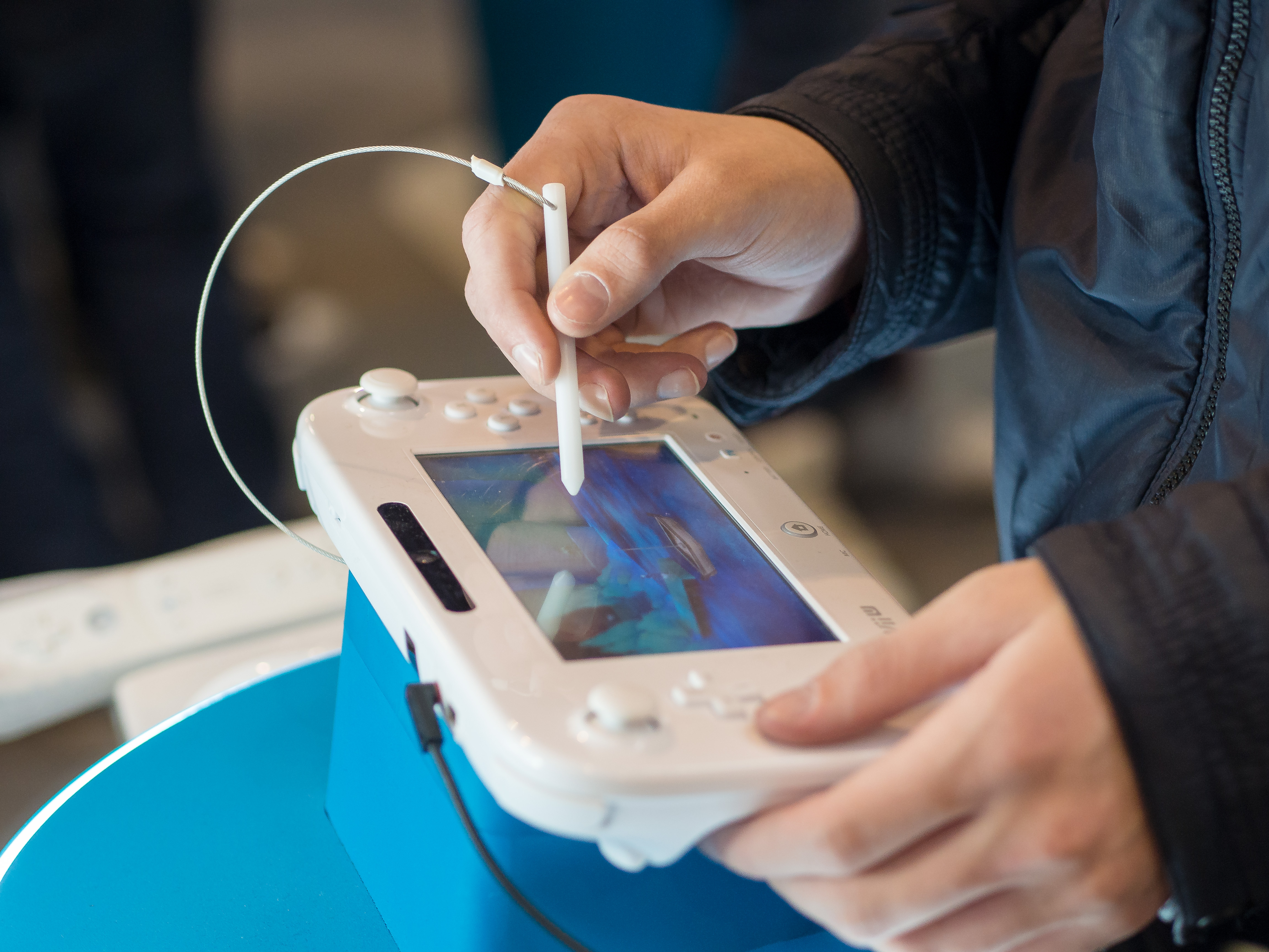 Russian gaming expo